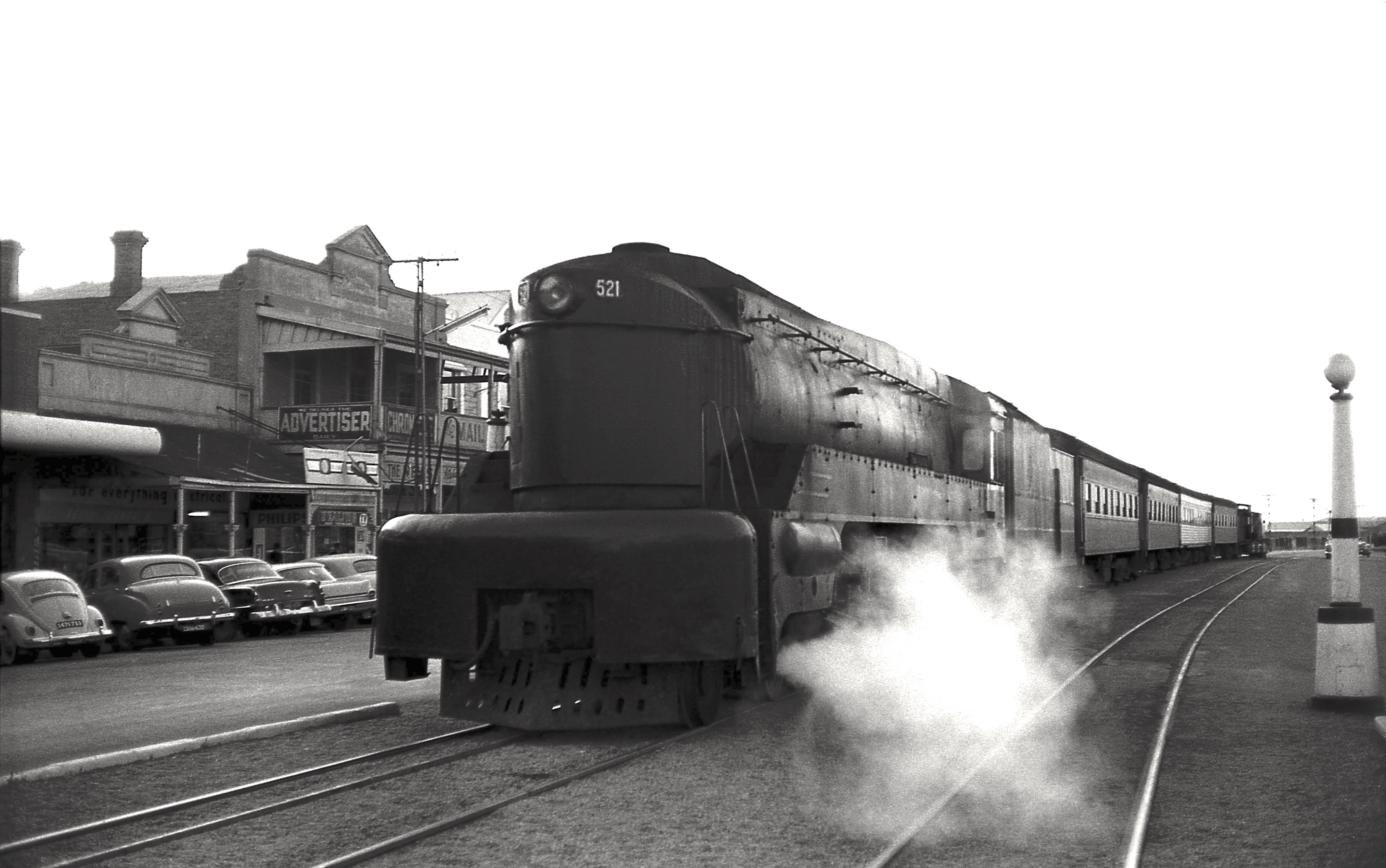 South Australian Railways locomotive no. 521 is stationary in the middle of Ellen Street, the main street of Port Pirie, South Australia. It has arrived with the evening train from Adelaide on 22 August 1963. One of the lighting bacons delineating the railway right-of-way is on the right. Further to the right (outside the frame) will be a similar scene of cars and buildings on the other half of the 33-metre (100-foot) wide street. The lcomotive is "Thomas Playford", the second of the 520 class, built in 1944. Even though about half of the 520 class fleet was withdrawn in 1963, they were still favoured because their brisk performance over the mostly flat route to Port Pirie was ideal, and competitive with diesel traction. Behind the locomotive is a typical train consist of Port Pirie trains: three 1930s-era steel passenger cars, a cafeteria car of 1947, and a 60-foot (18.3 m) "Long Tom" 12-wheeled brake van (1912–1923) that is being loaded or unloaded with milk churns immediately outside the Ellen Street railway station building.